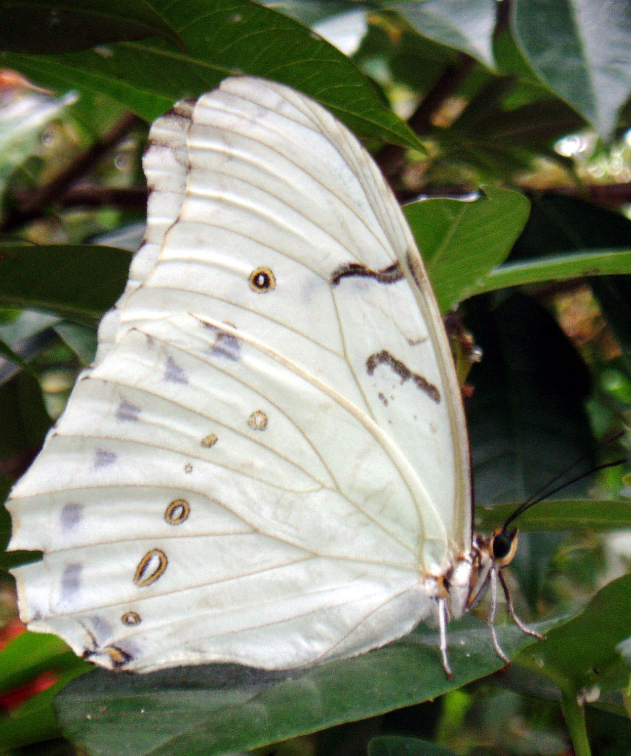 Cropped and color adjusted version of Image:Morpho Polyphemus 013.jpgtaken at Butterfly World Morpho polyphemus, White Morpho butterfly